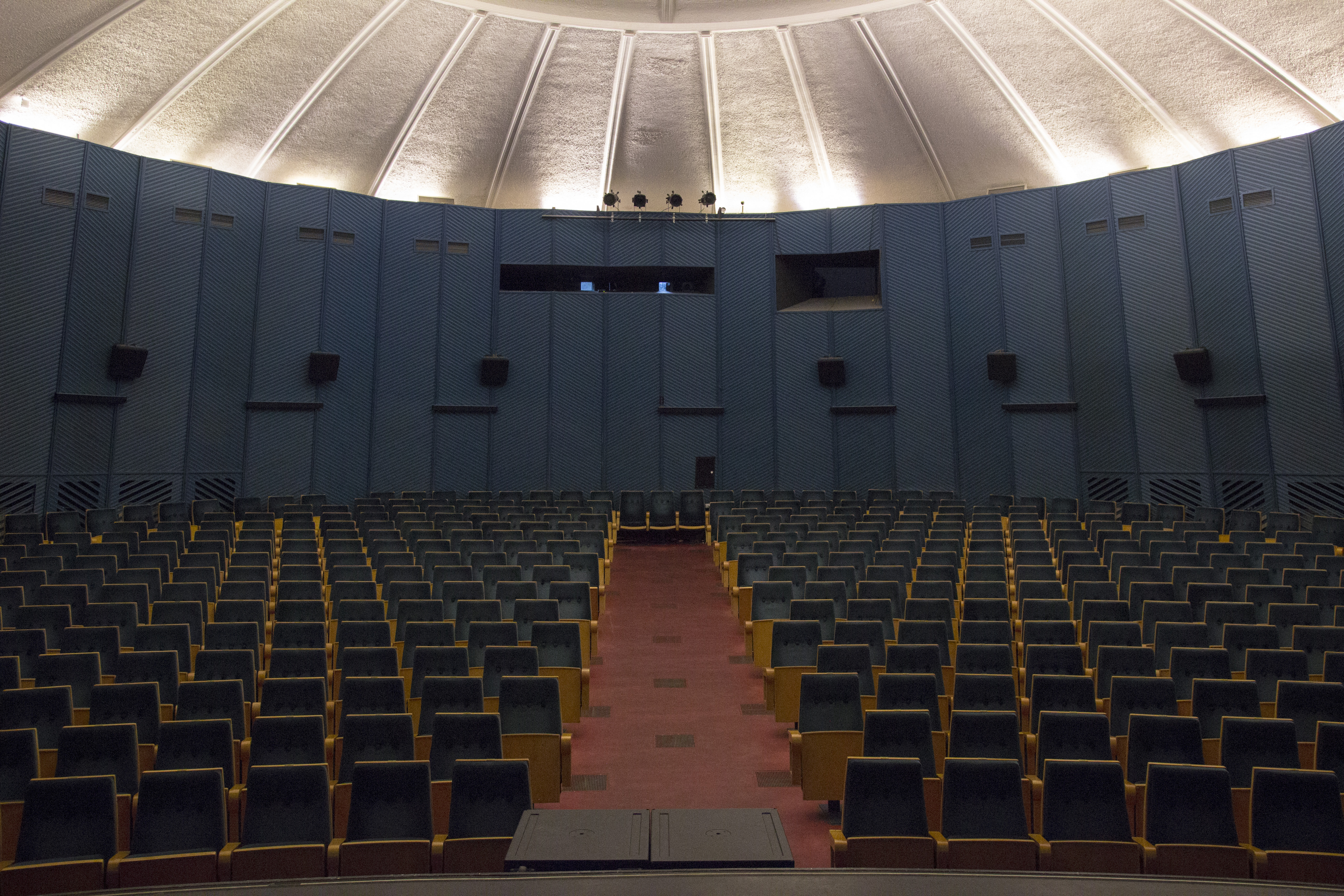 Interior of Forum Cinema in Białystok